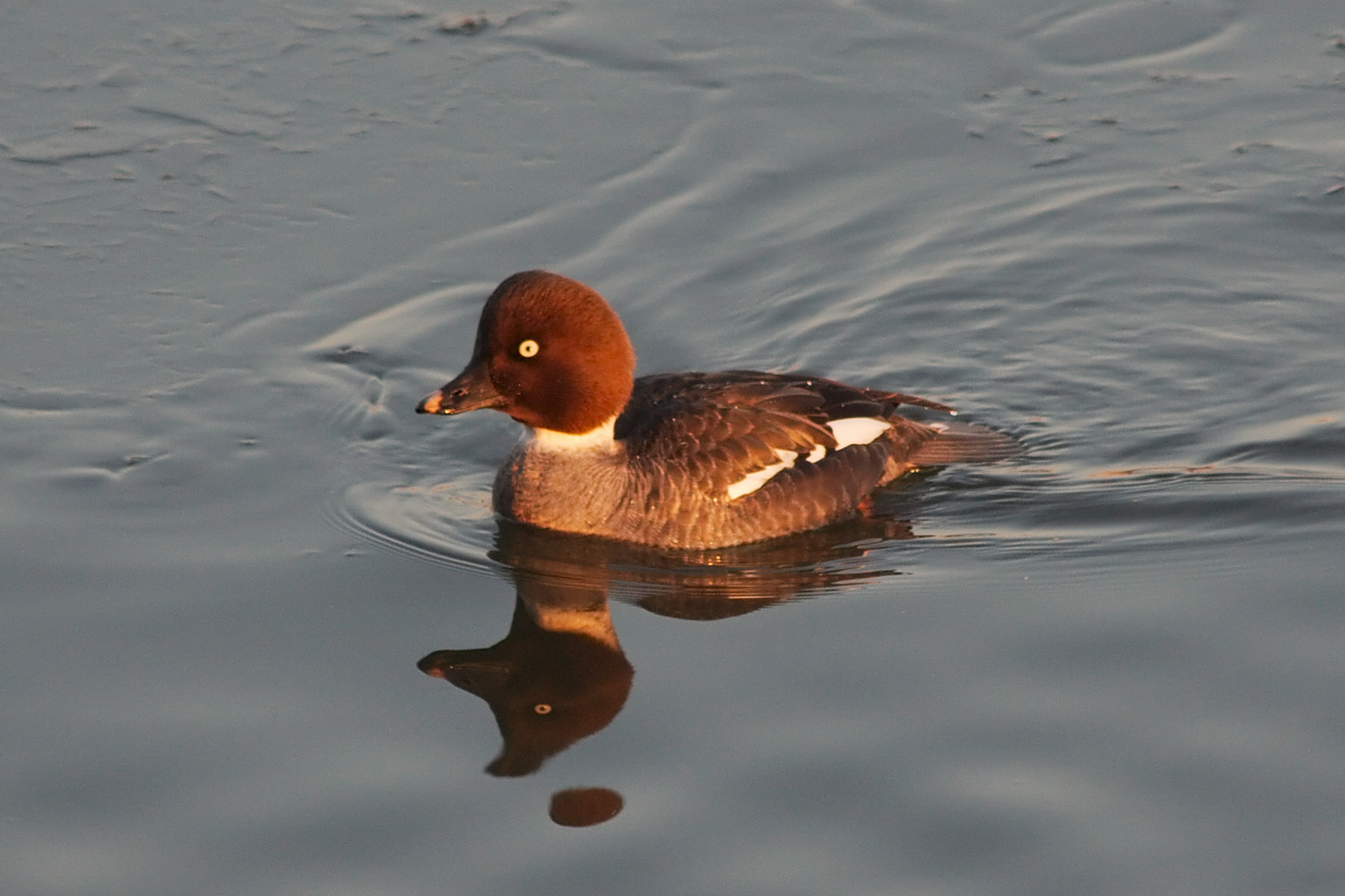 A female Common Goldeneye Bucephala clangula, taken at the McKinley Marina, Milwaukee, Wisconsin